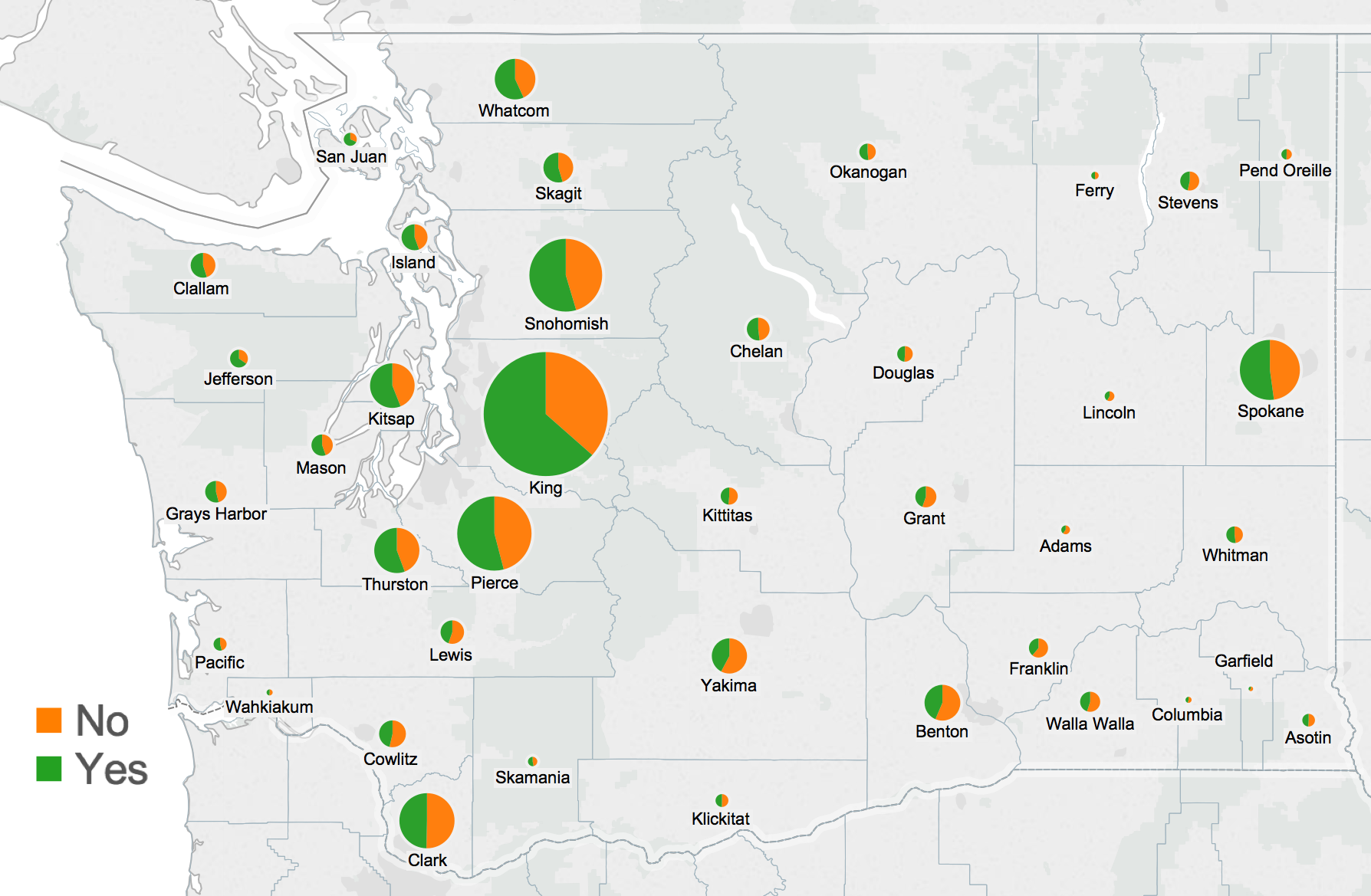 Washington Initiative 502 results by county, with number of votes shown by size, yes in green and no in orange.